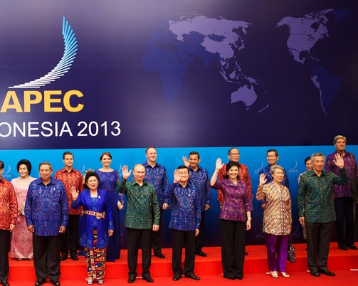 Leaders from U.S., Taiwan, Phillipines, Singapore, Thailand, Vietnam, Russia, and Indonesia @ 2013 Asia-Pacific Economic Cooperation (APEC) in Bali